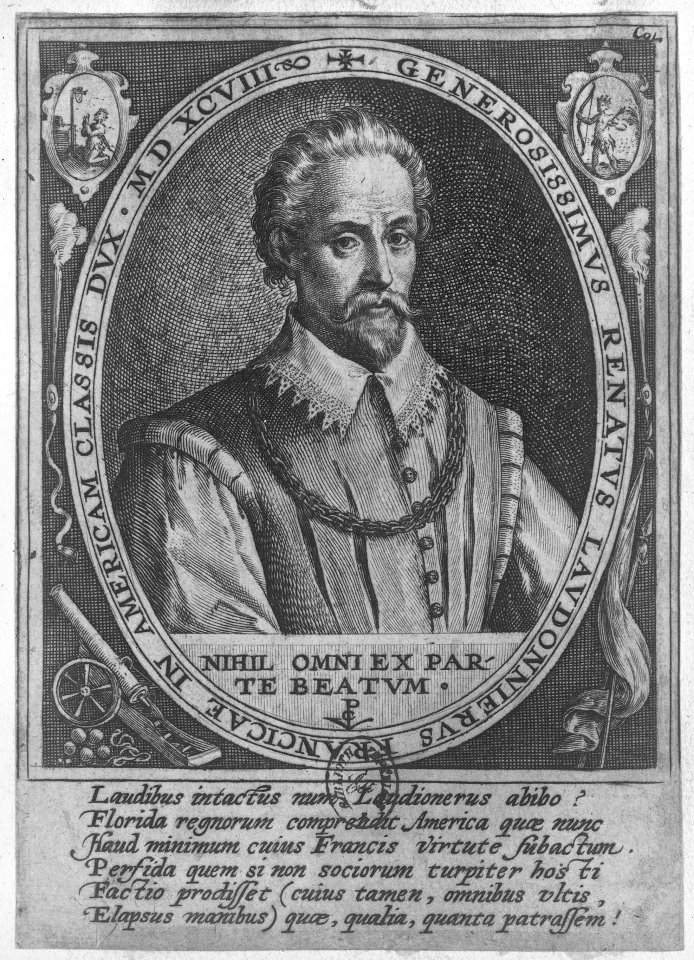 Engraving of René de Laudonnière held in the Bibliothèque Nationale de France.